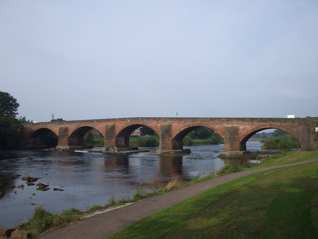 Bridge over the Esk, Longtown